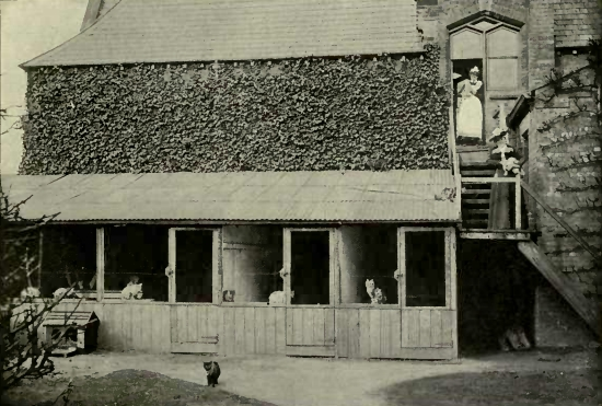 SOUTHERN CATTERY, SHOWING ENTRANCE TO INFIRMARY AND INDOOR CATTERY.